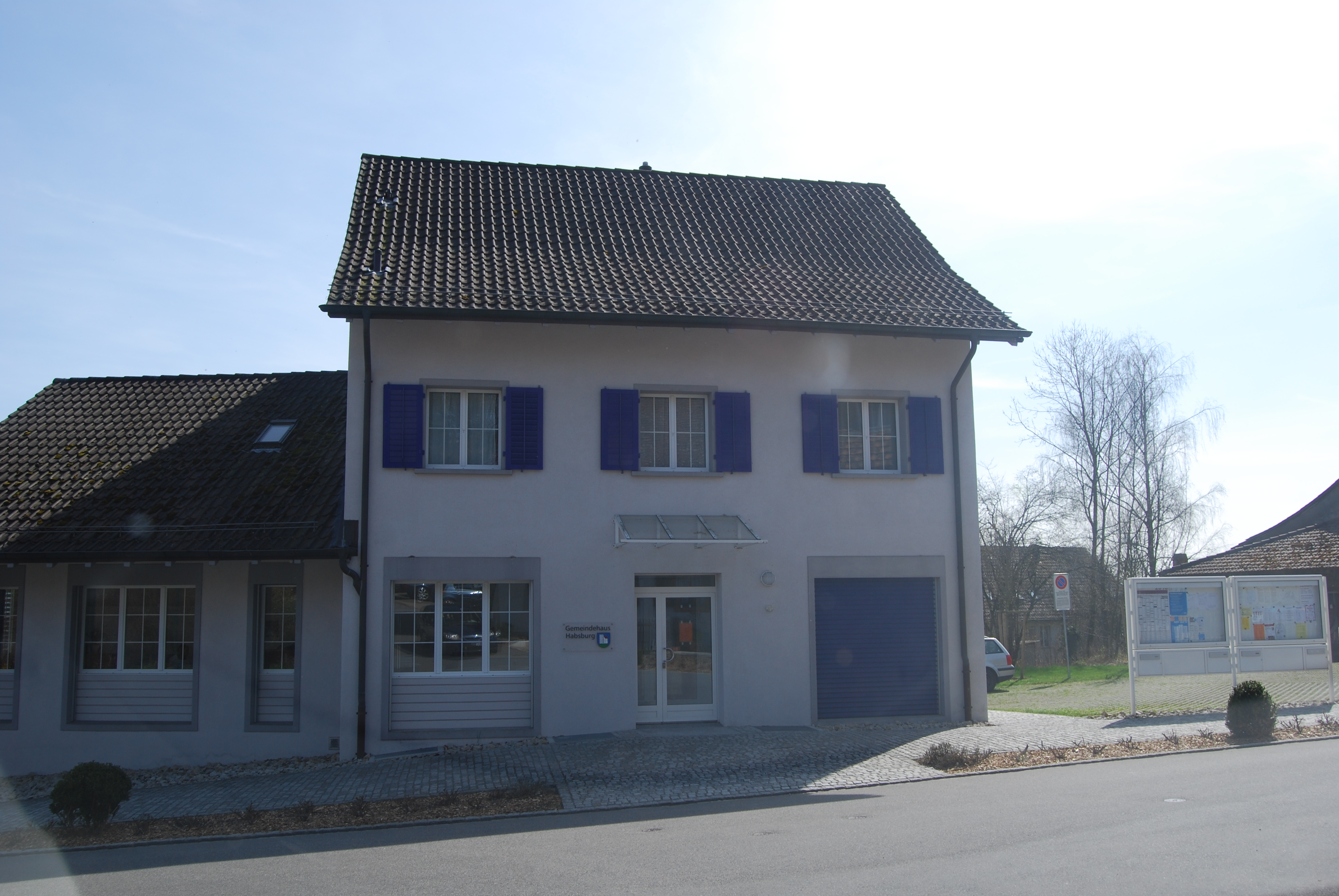 Municipal administration of Habsburg, canton of Aargau, SwitzerlandEsperanto: Komunuma domo de Habsburgo, Kantono Argovio, Svislando